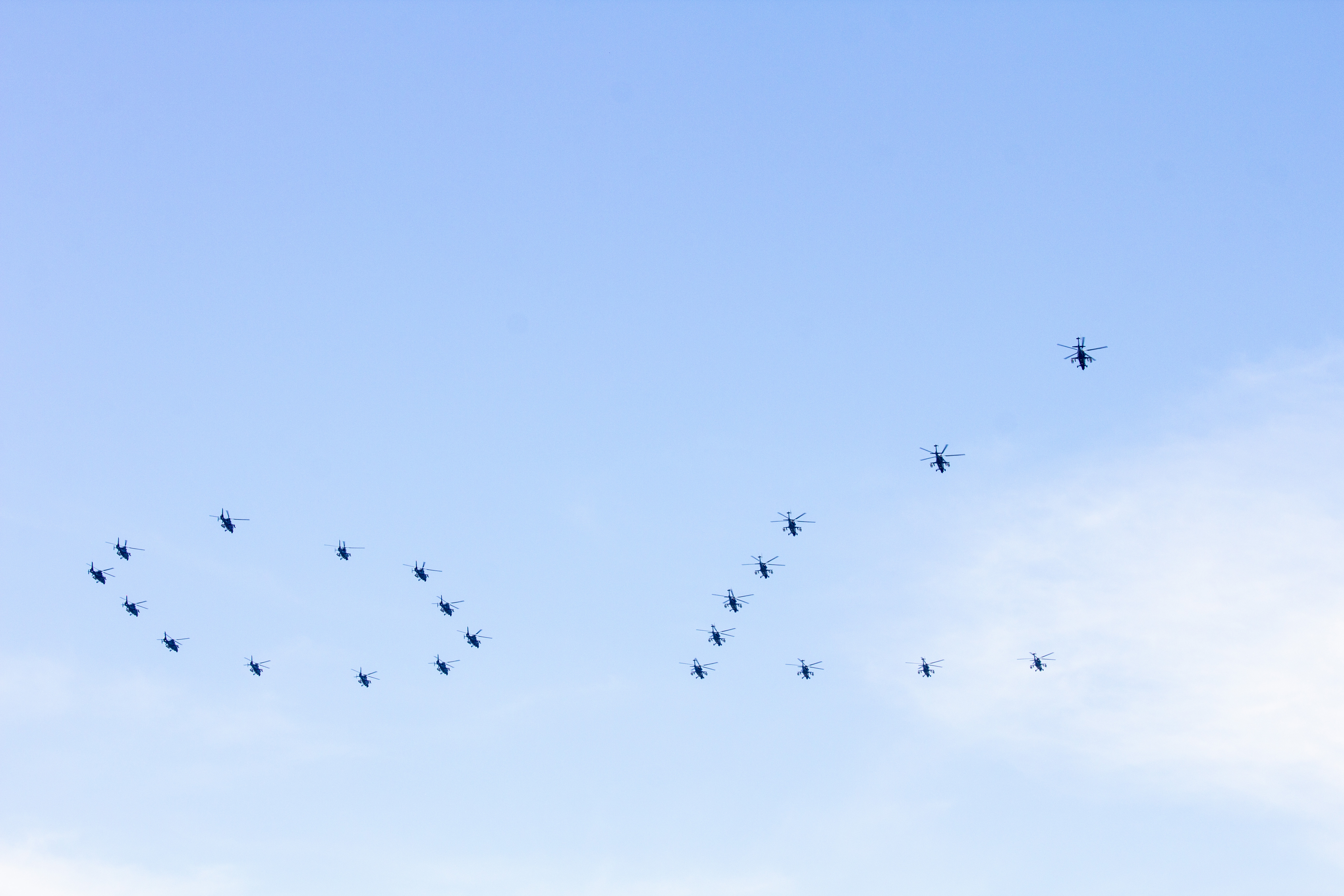 Taken on Tongzhou District. Twenty helicopters form a numeric "70" in the sky, meaning the rerise from the Victory Sino-Japanese War.